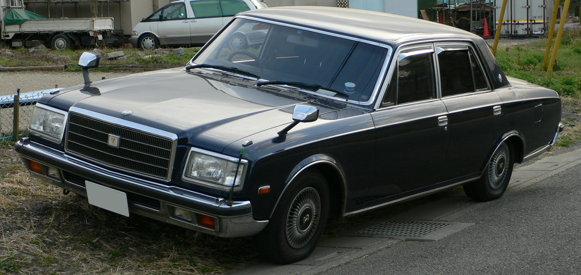 Toyota_Century(1982)